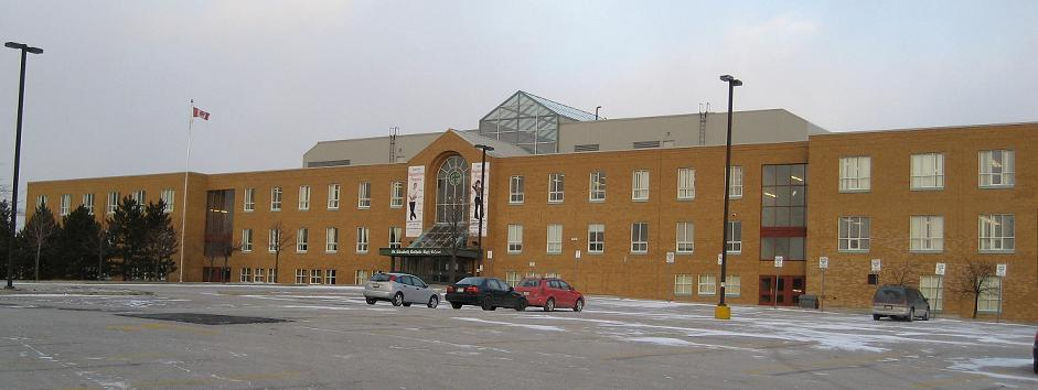 St. Elizabeth CHS